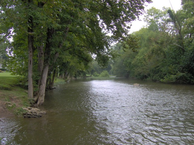 The West Fork of the Little Pigeon River in Pigeon Forge, Tennessee.